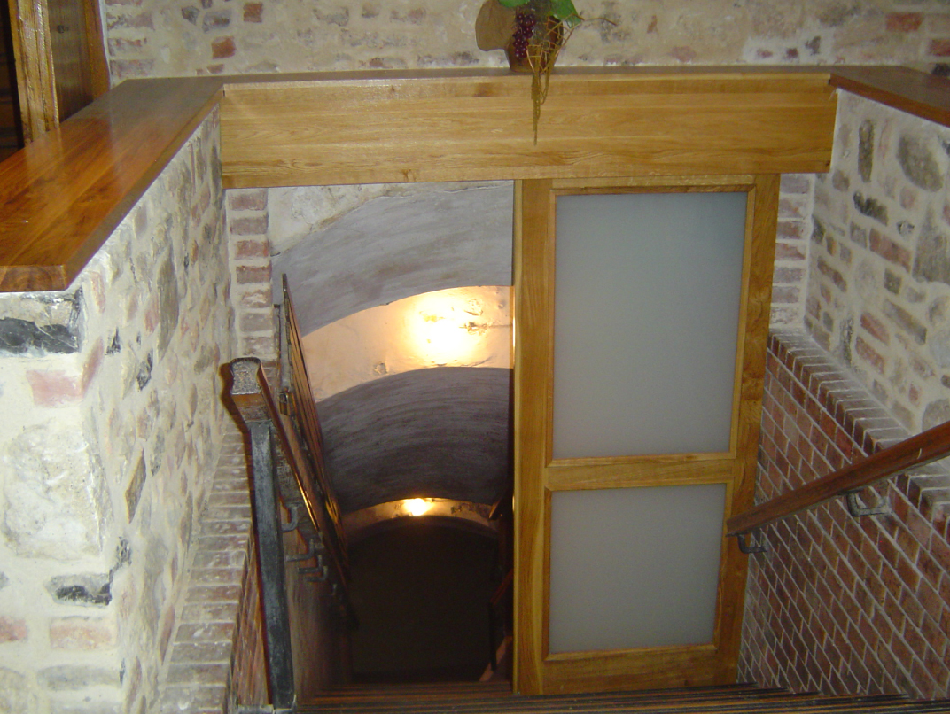 Entrance of Pezsgohaz, Pécs, Hungary.